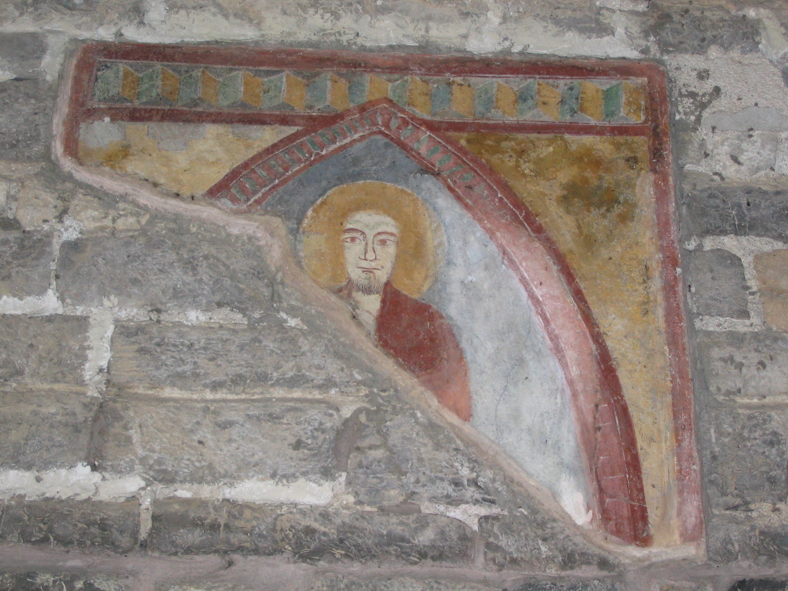 Priorato di Piona: Detail from a fresco in the cloister. Picture by: Giorces.